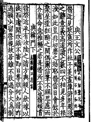 Corpus of Ouyang Xiu, a Sung edition, National Treasures of Japan